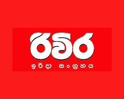 Logo of Rivira - Sri Lanka based weekly